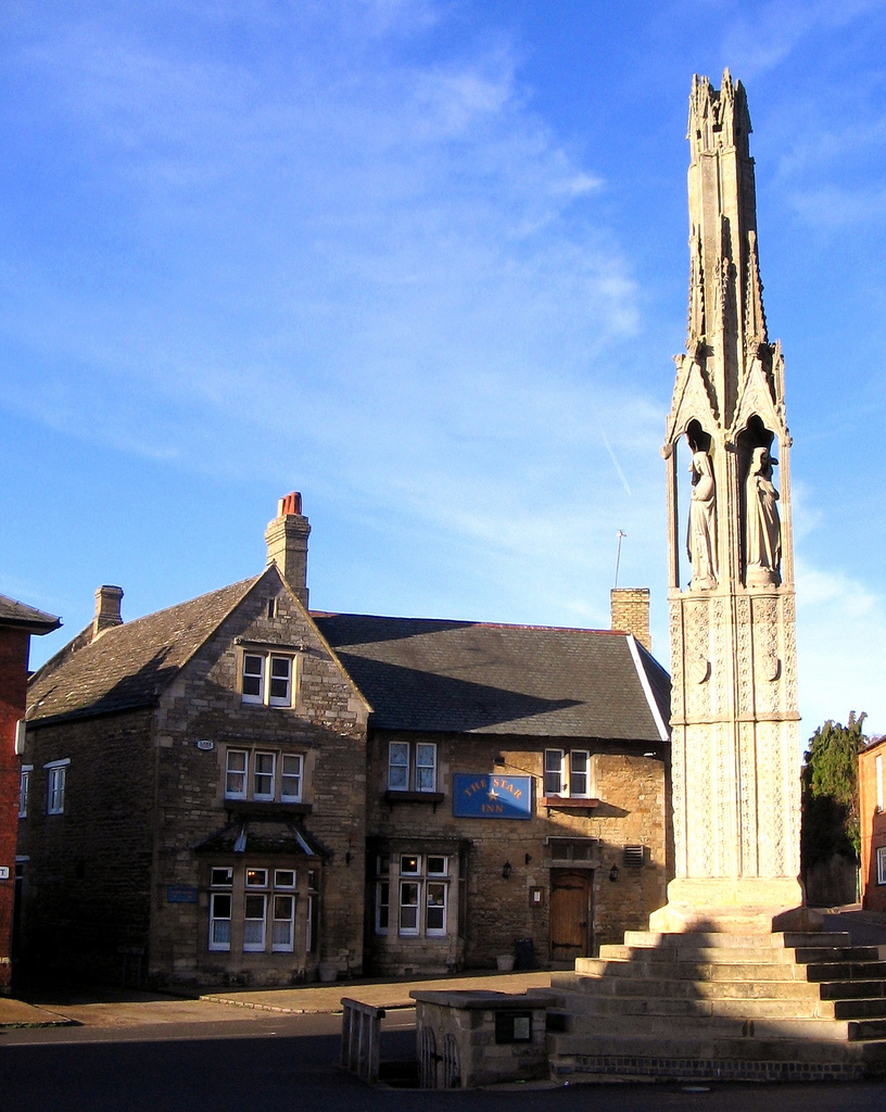 The Star Inn, Geddington, with Eleanor Cross in the foreground.